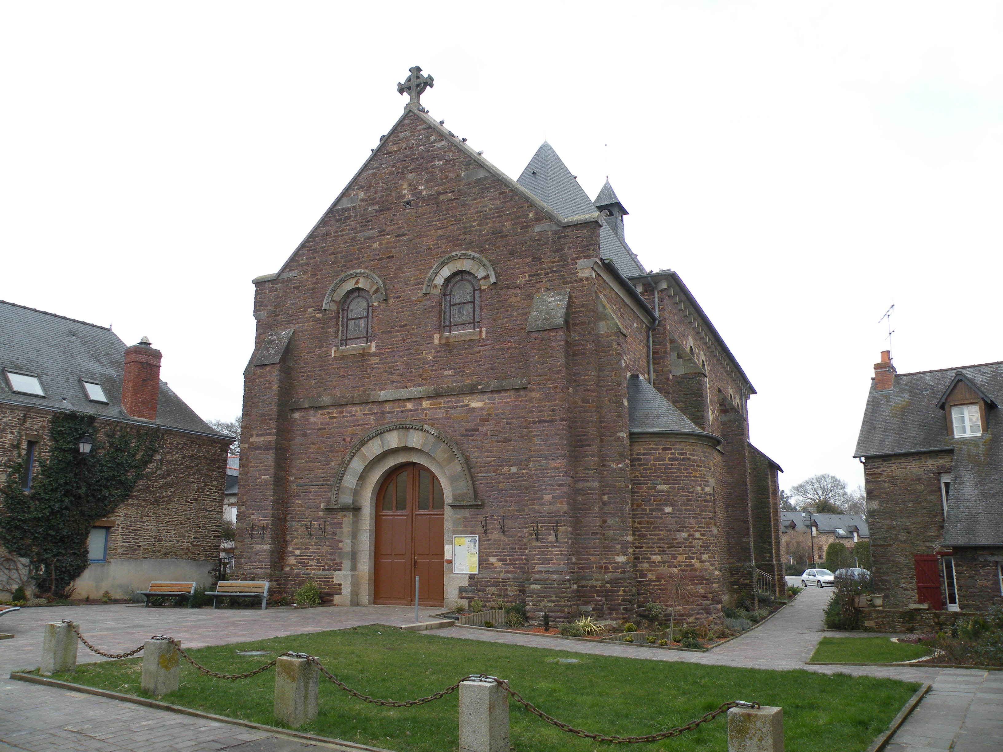 Church of Lohéac.